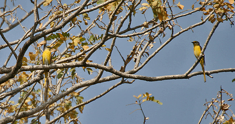 Small Minivet Pericrocotus cinnamomeus at Keoladeo National Park, Bharatpur, Rajasthan, India.